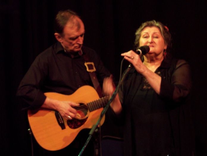 Martin Carthy and Norma Waterson performing as part of Waterson:Carthy at Cranleigh Arts Centre, Surrey , UK on 2006-04-23. I took the photo. (Unfortunately the photo of Tim.v.E. and Eliza.C was too poor to upload.)